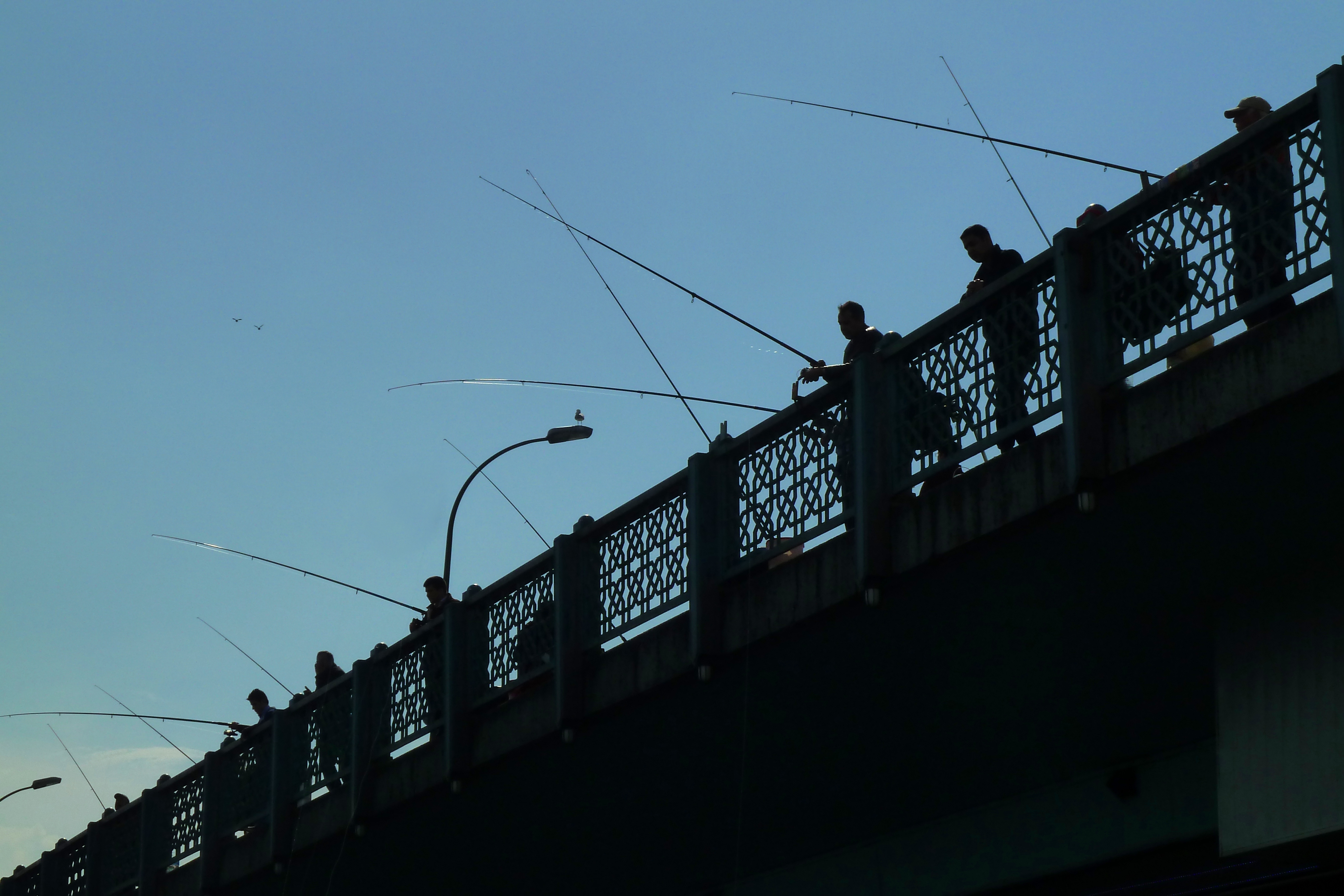 fishermen at the Galata Bridge in Istanbul